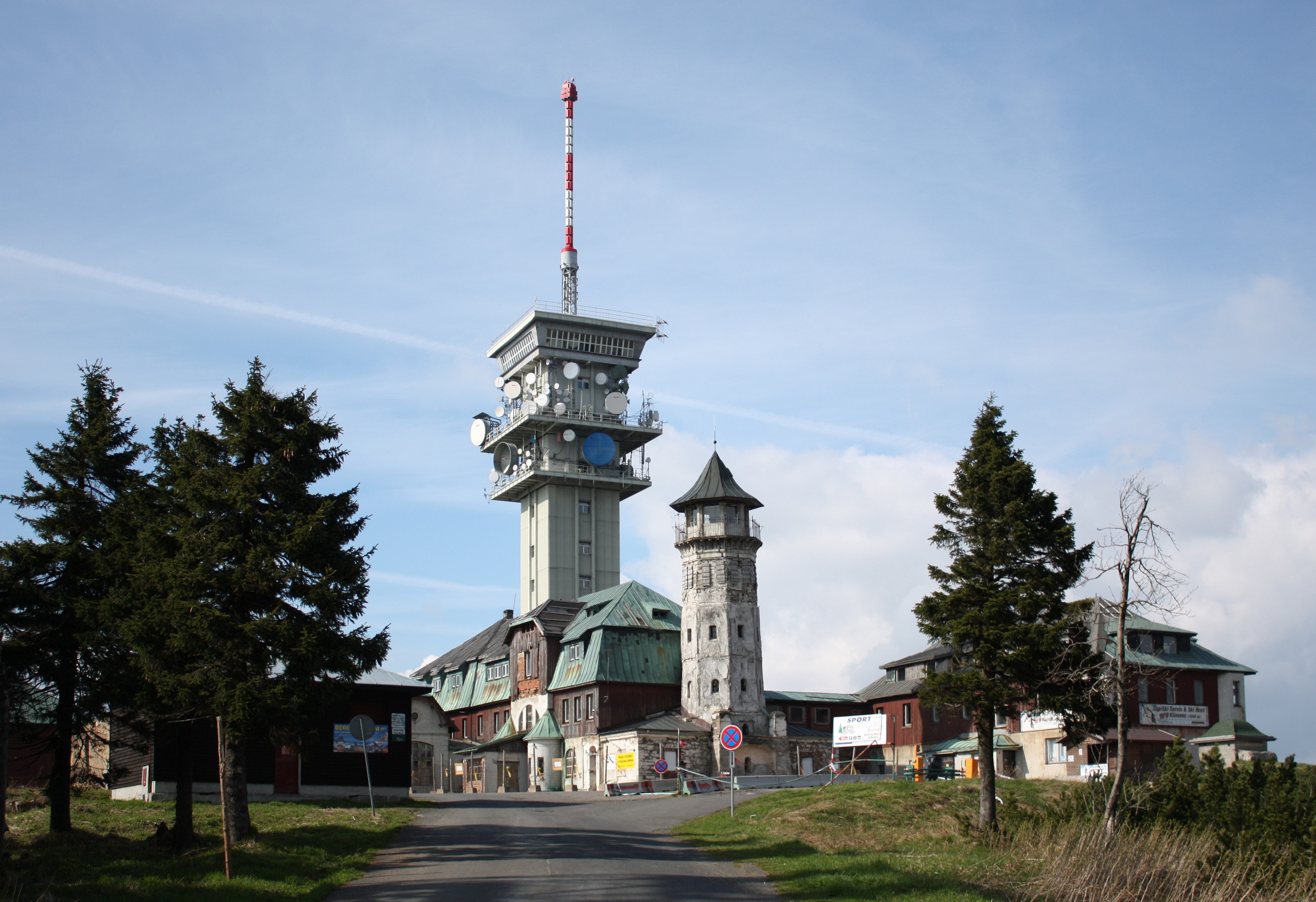 Road to Klínovec